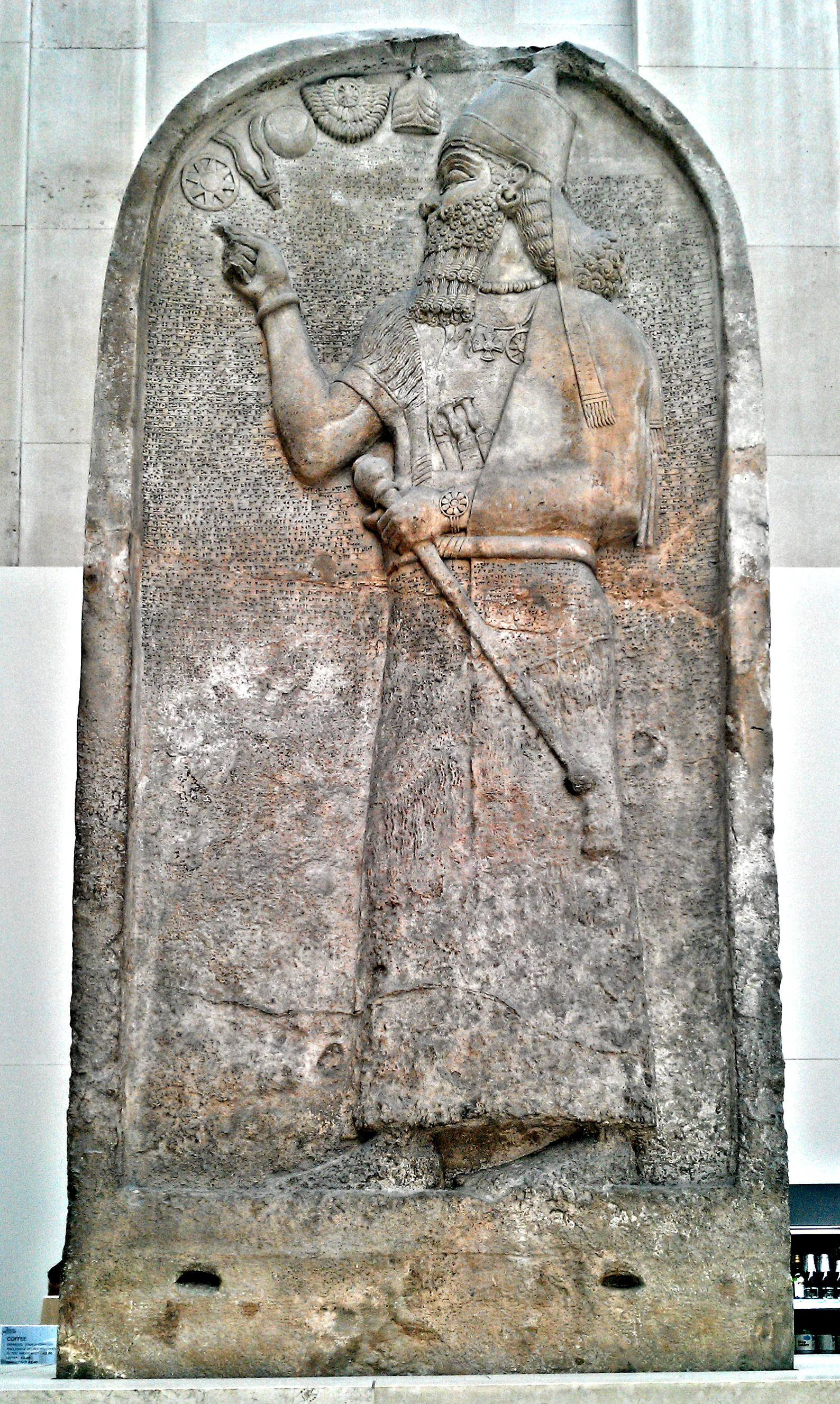 Alabaster Stela of the Asirian King Ashurnasirpal II (884-859 BC) - British Museum